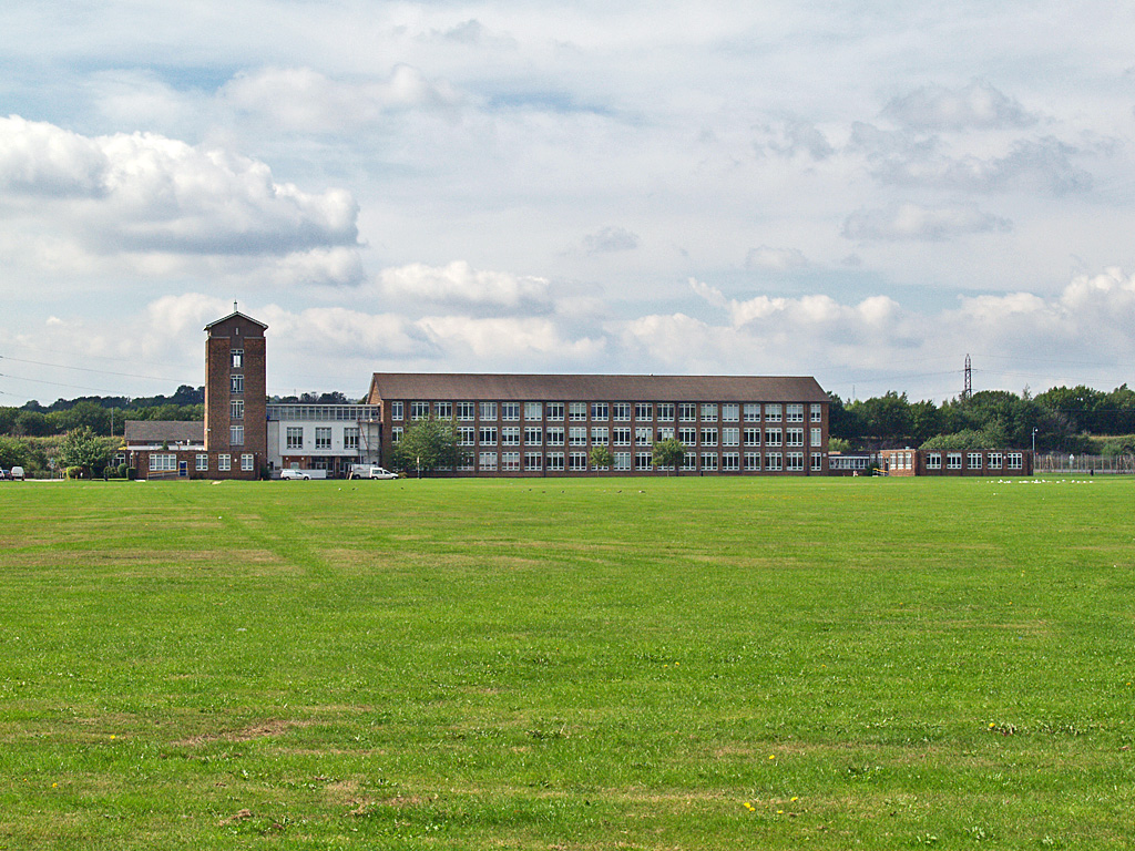 The Derby High School on Radcliffe Road, Bury, Greater Manchester, England.